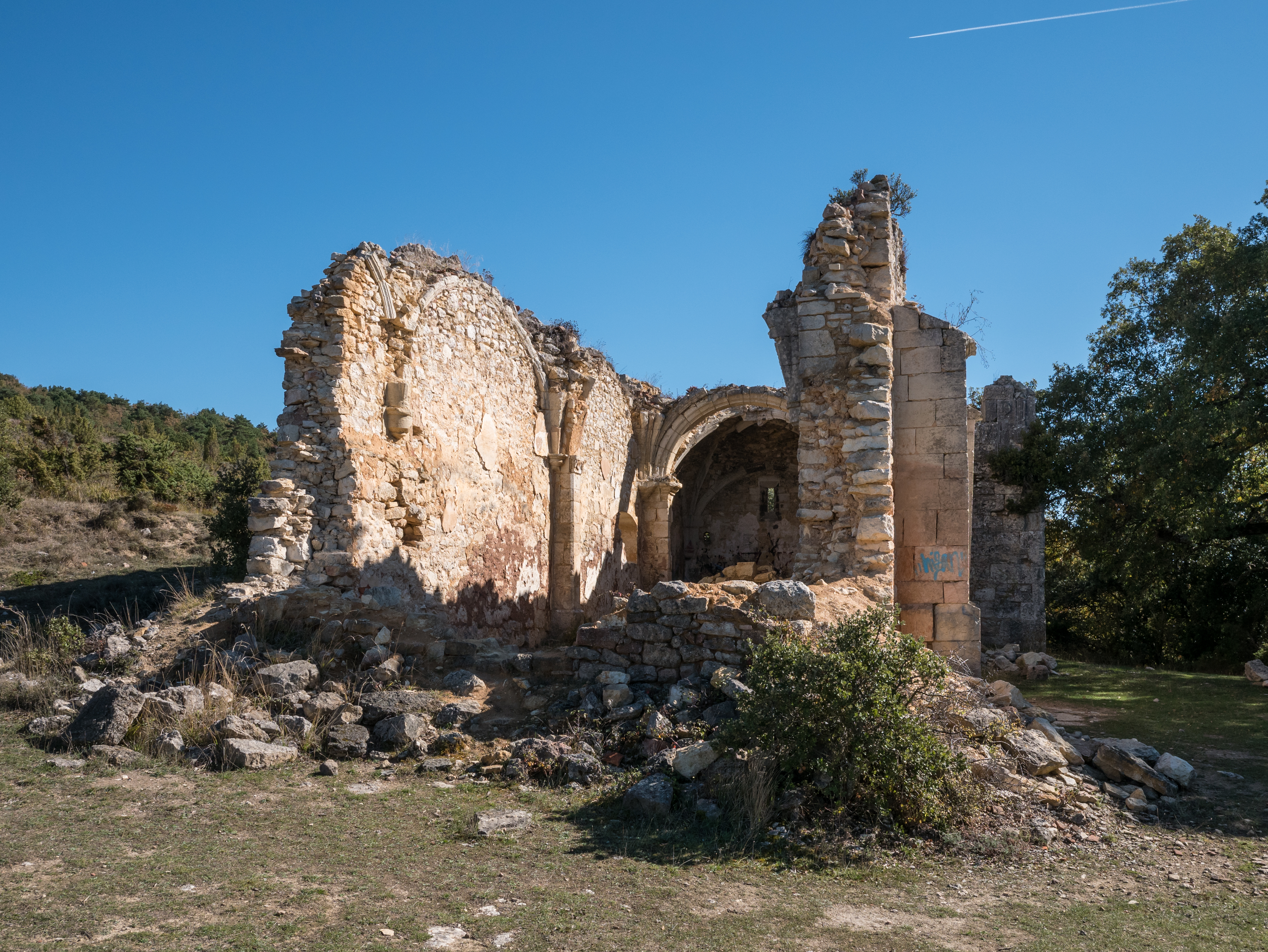 Ruins of the Burgondo chapel. Treviño Country, Spain